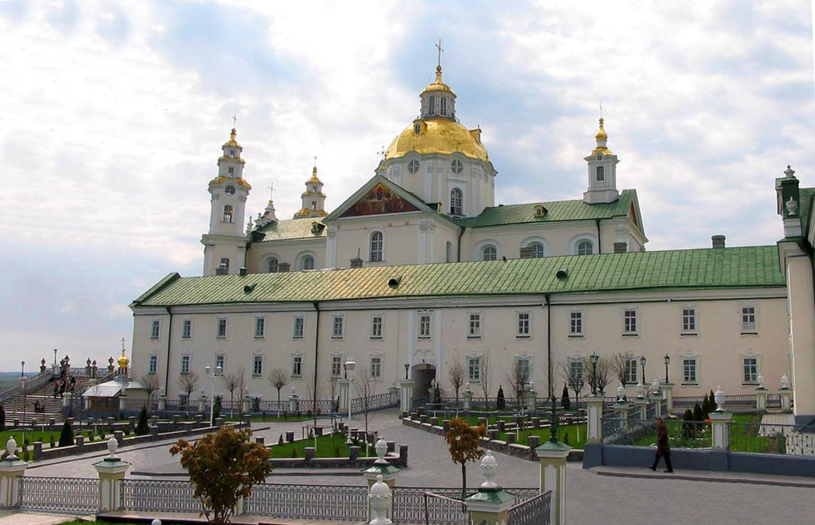 Dormition Cathedral